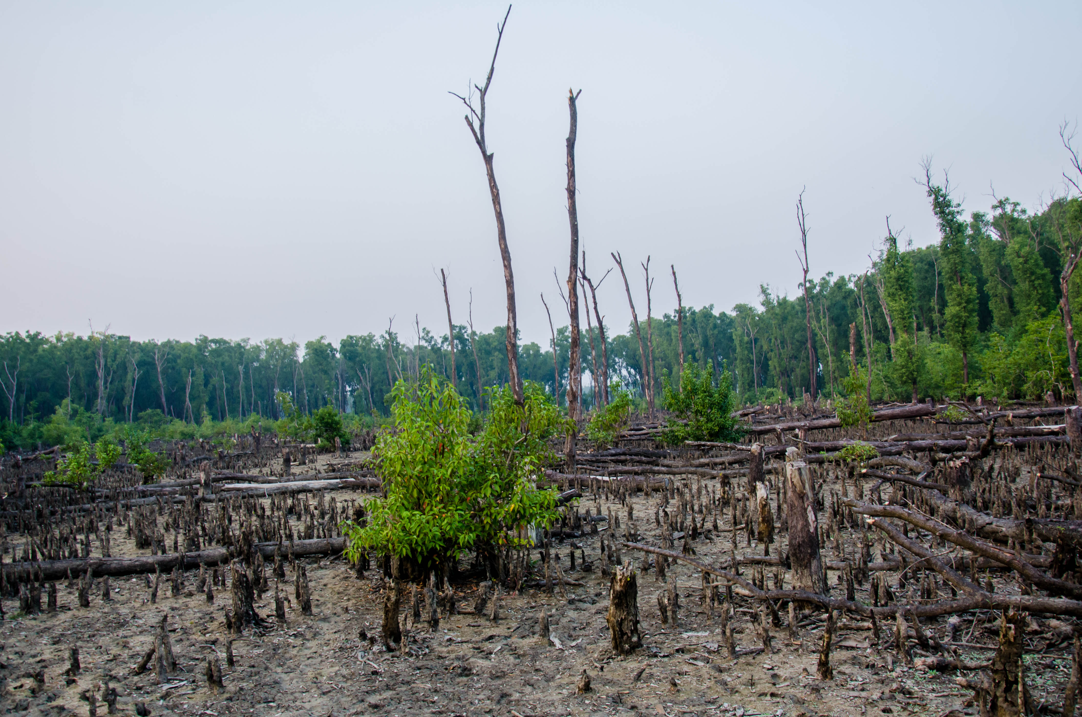 Nijhum Dwip, a small island under Hatiya upazila, Bangladesh.